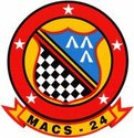 insignia for MACS24